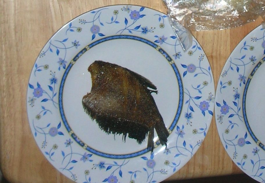 Fried Snakeskin gourami (ปลาสลิด)